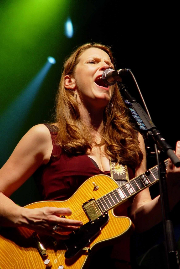 Blues performer Susan Tedeschi in the Netherlands, 2006